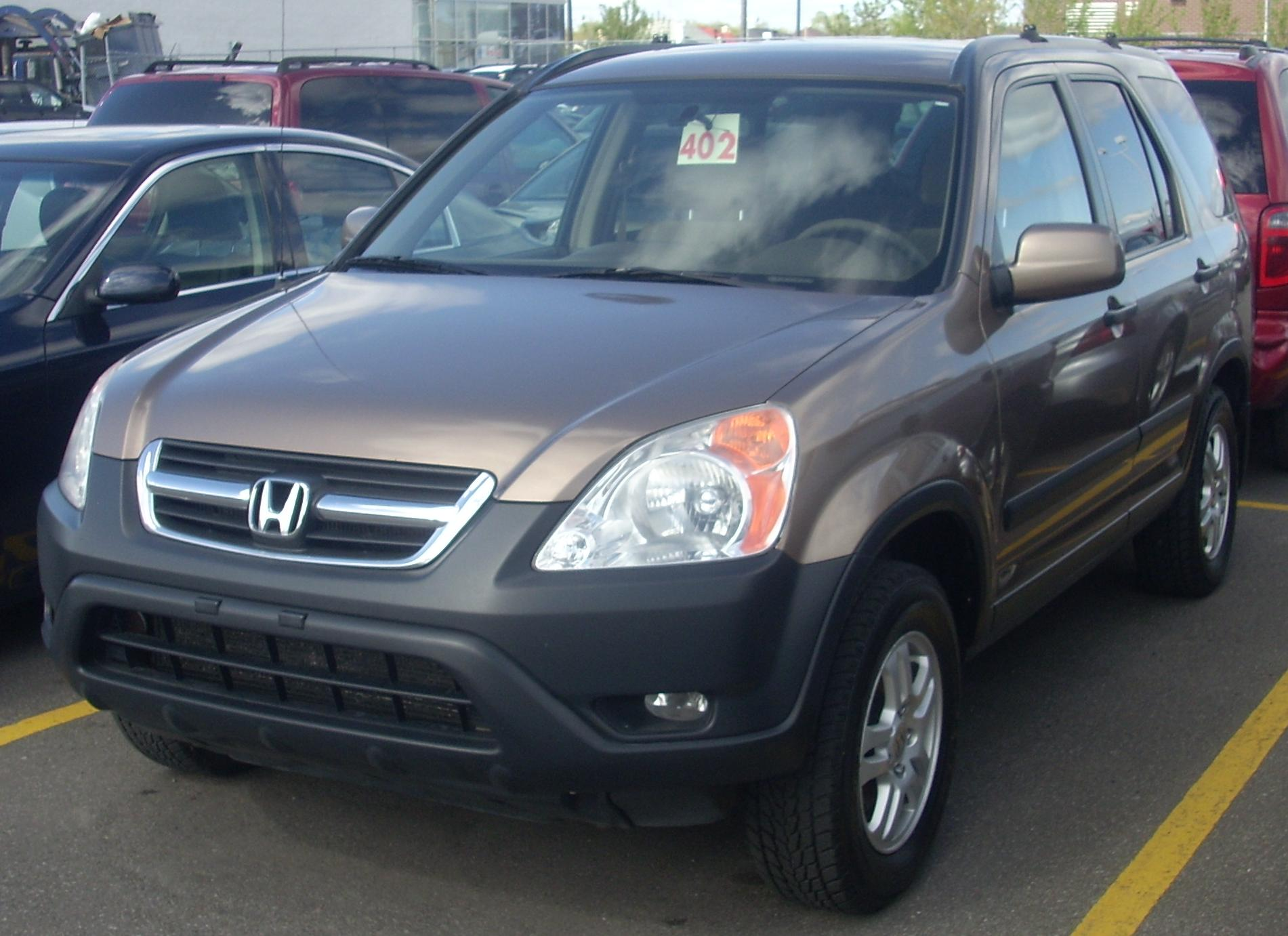 2002-2004 Honda CR-V photographed in Montreal, Quebec, Canada.